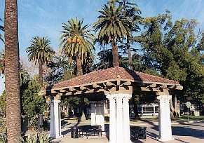 The waiting pavilion at Ontario Train Station (Amtrak) — in Ontario, Inland Empire, Southern California. With old Canary Island date palm (Phoenix canariensis) trees.